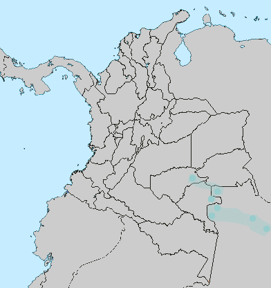 Makú Languages in Colombia and Brasil. Spots indicates actual locations of different makú languages, shadowed area intended extension before 20th century.